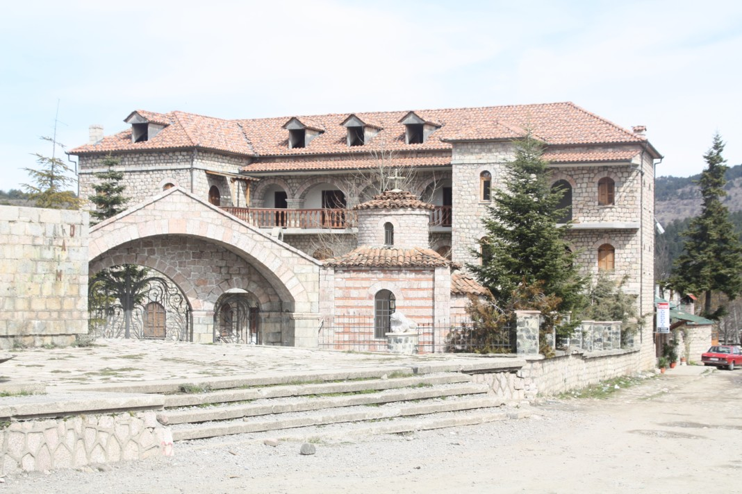 Voskopojë, Albania